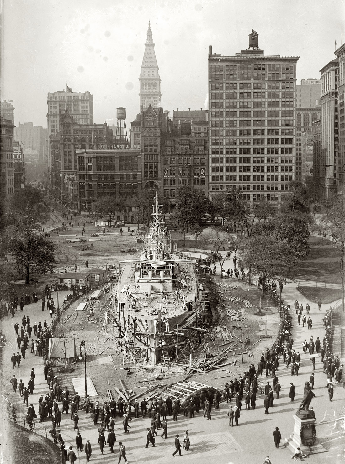 New York, 1917. "Landship Recruit on Union Square." The U.S.S. Recruit, a wooden battleship erected by the Navy, served as a World War I recruiting station at Union Square from 1917 to 1920, when it "set sail" for Coney Island.